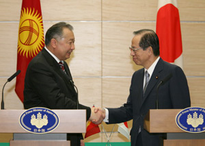 Yasuo Fukuda, Prime Minister, and Kurmanbek Bakiyev, President, attended the press conference at the Prime Minister's Official Residence in Chiyoda Ward, Tōkyō Metropolis on November 14, 2007.